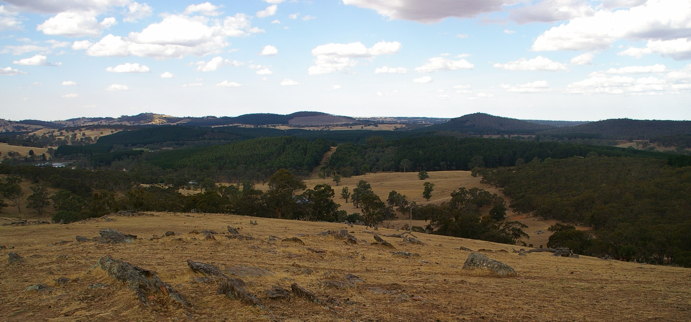 Mount Crawford Forest, South Australia.